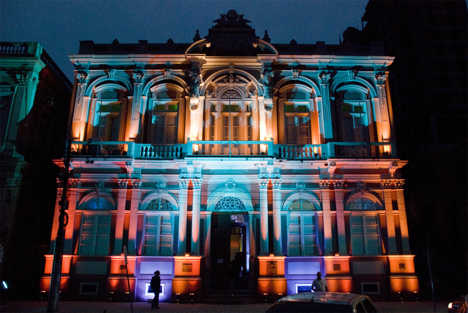 Pelotas Public Library, Pelotas, Rio Grande do Sul, Brazil.